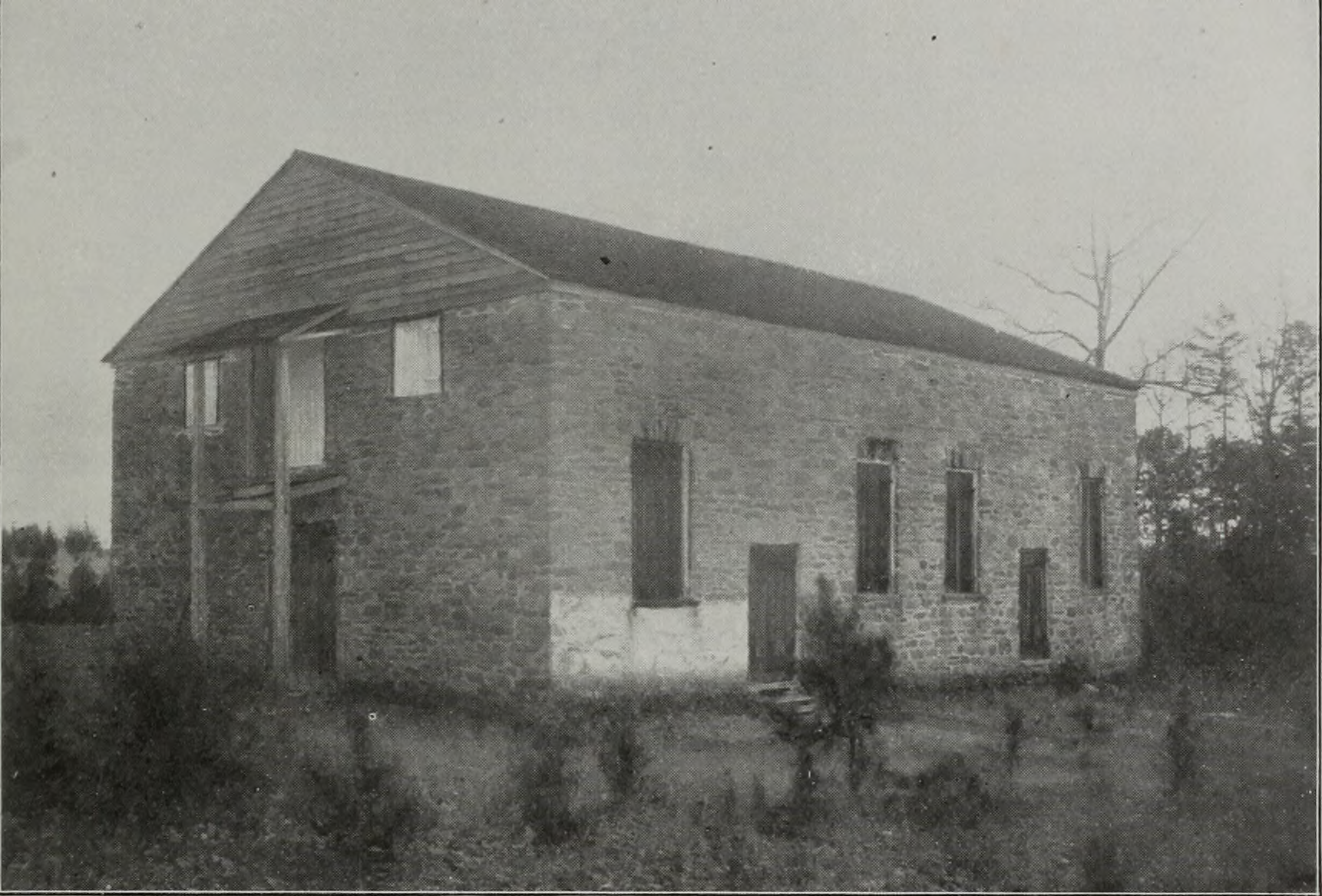 The Old Stone Church from the 1901 Clemsonian